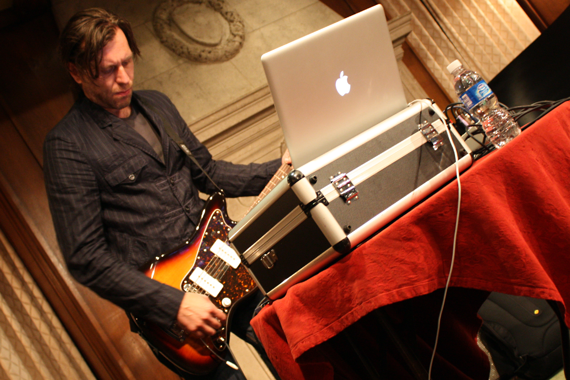 Fennesz live at the Strathmore Mansion, Bethesda MD 21sept10. Day 4 of the 2010 DC Sonic Circuits festival.